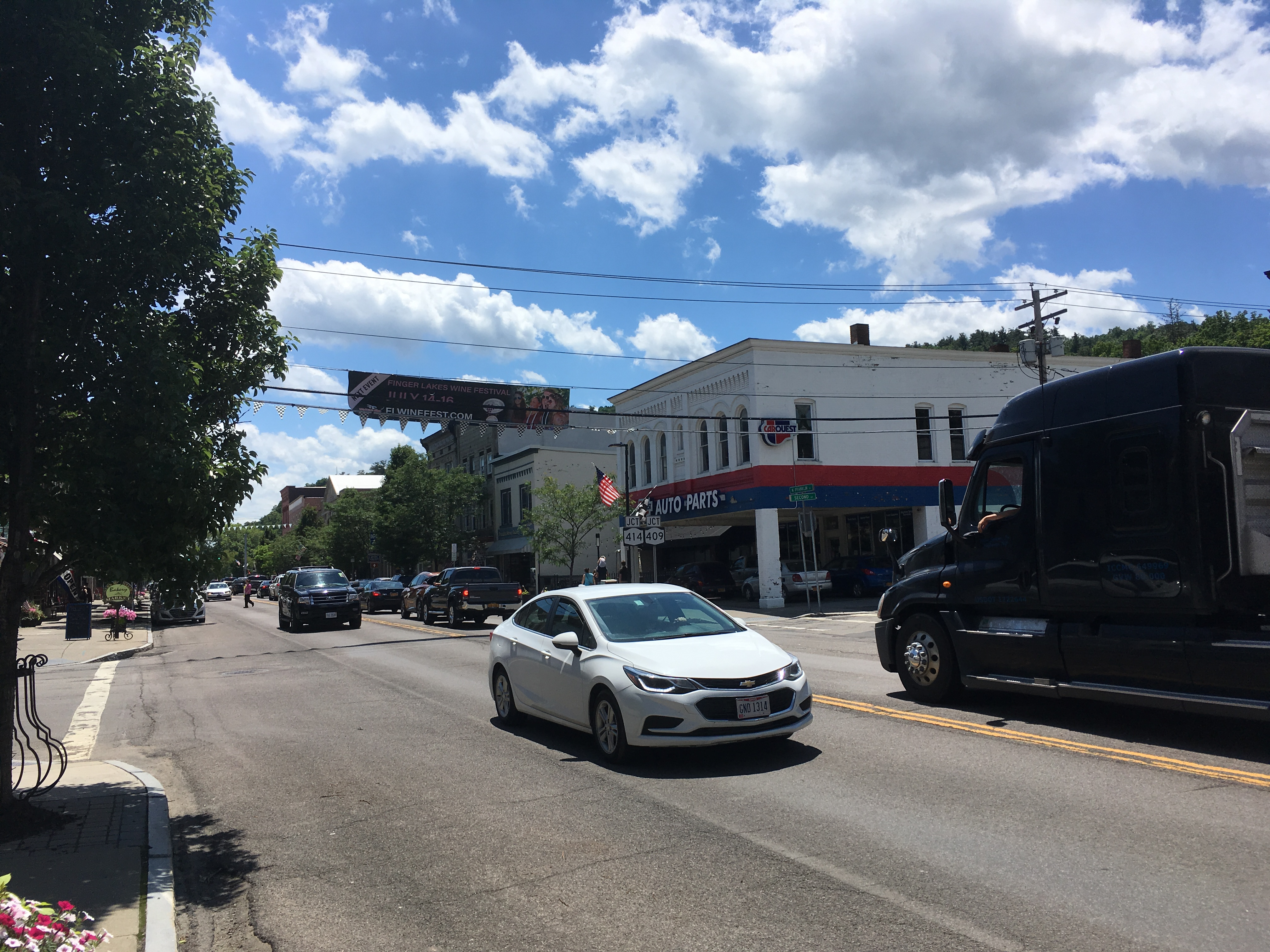 Southbound New York State Route 14 (Franklin Street) approaching the intersection with New York State Route 409/New York State Route 414 (Fourth Street) in Watkins Glen.